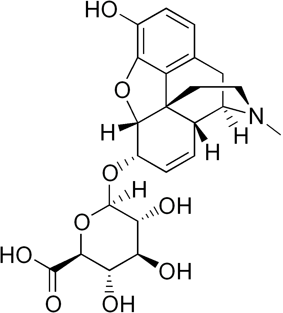 chemical structure of the 6-glucuronide of morphine